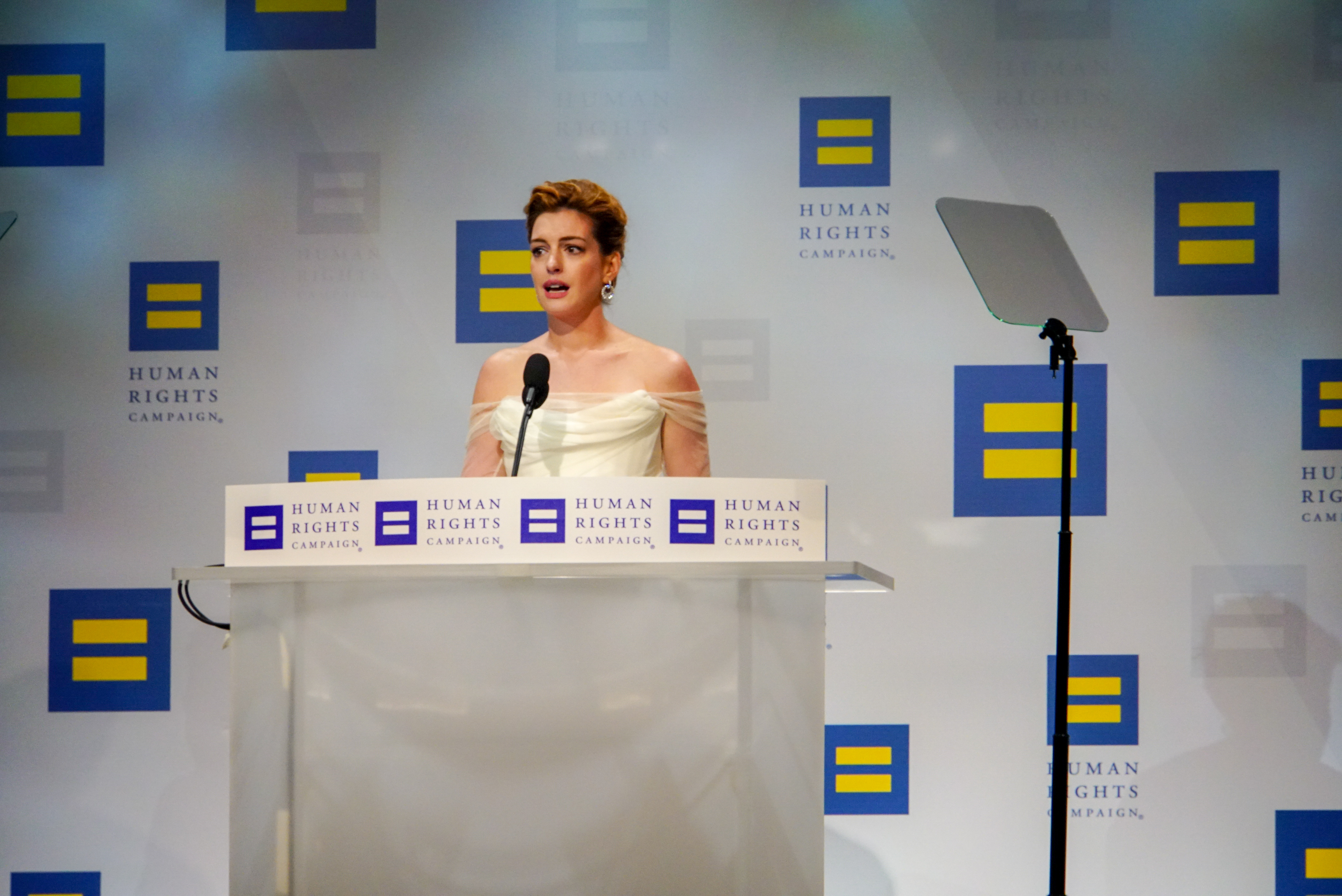 Anne Hathaway at the Human Rights Campaign National Dinner, Washington, DC USA, September 15, 2018